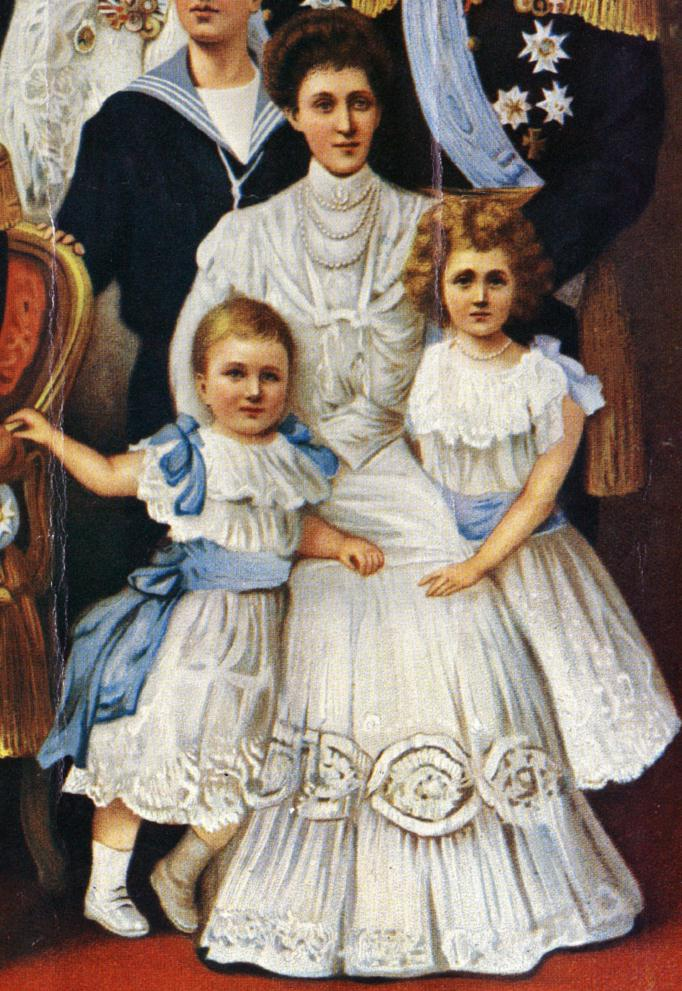 Princess Ingeborg of Sweden (1878-1958) with her two eldest daughters Märta and Margaretha